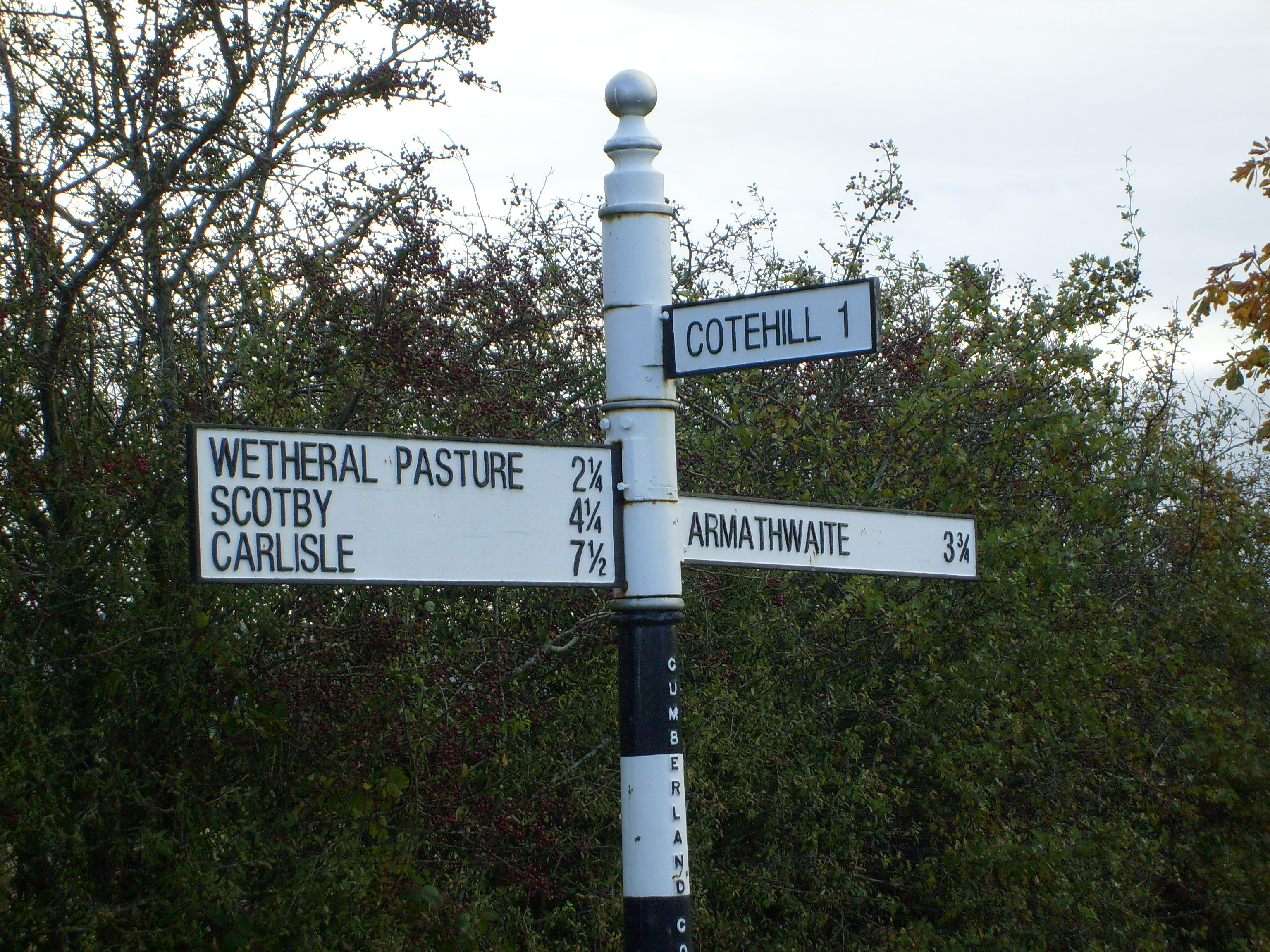 Signpost showing Cotehill, Scotby, Wetheral, Armathwaite, near Carlisle in Cumbria